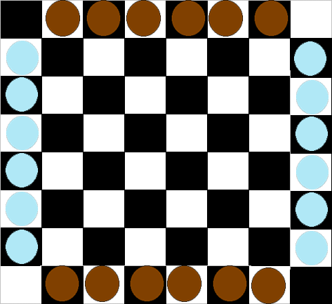 LOA (Lines of Action): Setup of LOA